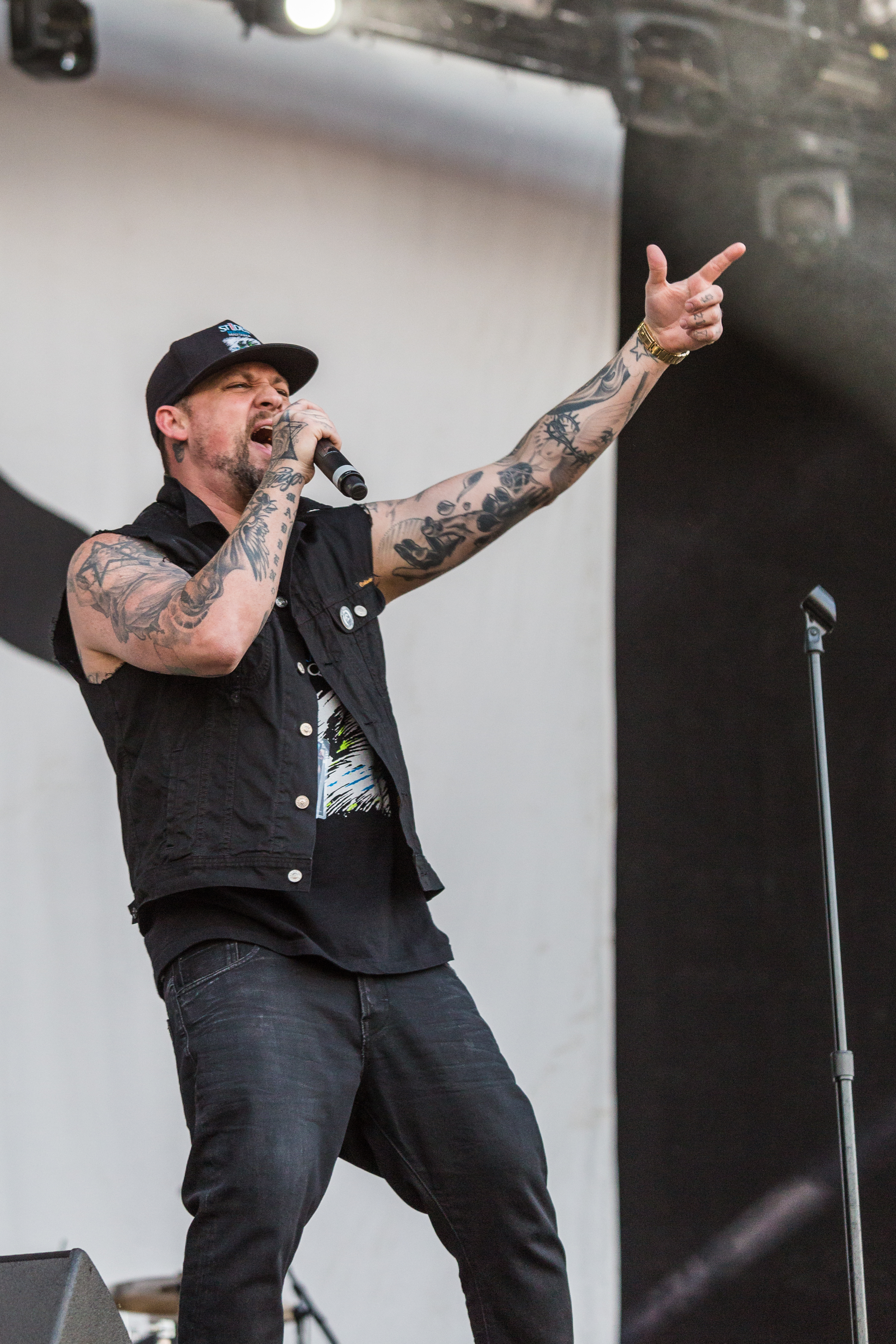 Nova Rock 2017 Joel Madden from Good Charlotte at the Nova Rock 2017